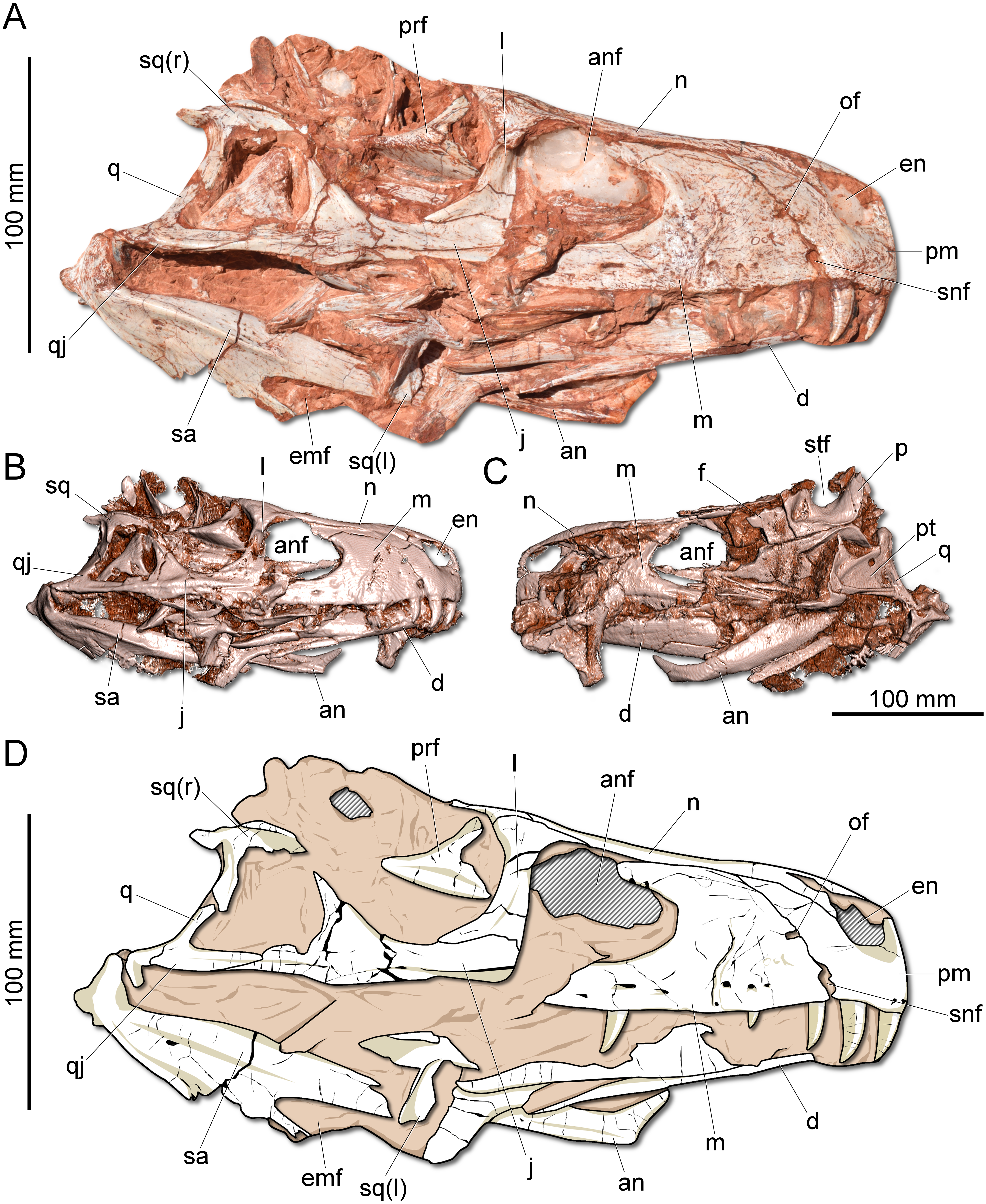 Figure 2: Photographs and reconstruction of the skull of CAPPA/UFSM 0009. (A) Right lateral view. (B) Three-dimensional rendering of the skull in right lateral view. (C) Three-dimensional rendering of the skull in left/dorsal lateral view. (D) Schematic drawing in right lateral view. an, angular; anf, antorbital fenestra; d, dentary; emf, external mandibular fenestra; en, external naris; j, jugal; l, lacrimal; m, maxilla; n, nasal; of, oval fenestra; p, parietal; pm, premaxilla; prf, prefrontal; pt, pterygoid; q, quadrate; qj, quadratojugal; sa, surangular; snf, subnarial foramen; sq, squamosal; stf, supratemporal fenestra.